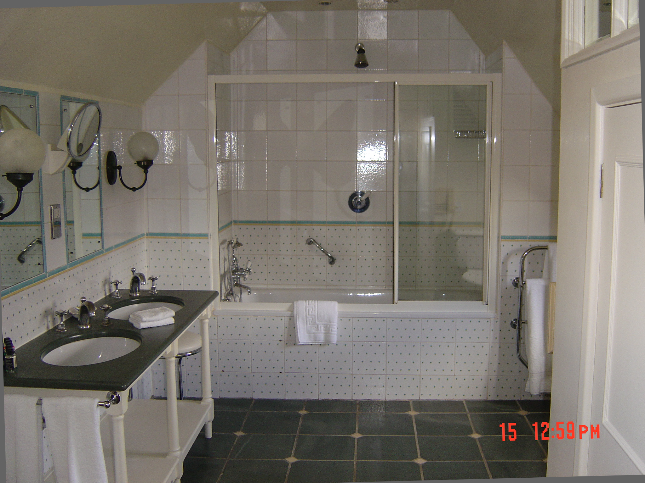 The_Lygon_Arms_hotel,_bathroom